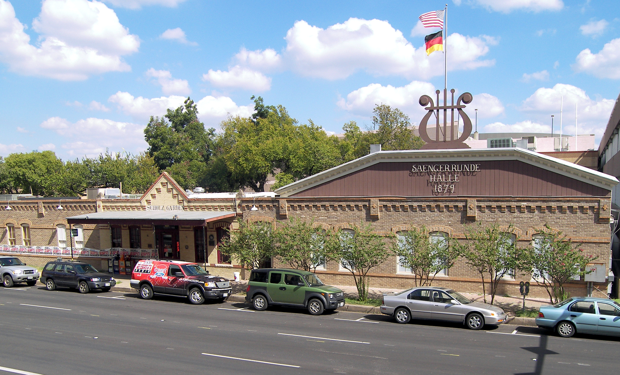 Scholz Biergarten located in Austin, Texas, United States. The building was designated a Recorded Texas Historic Landmark in 1967 and was listed on the National Register of Historic Places on July 27, 1979.